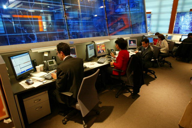 A view inside the BBG Middle East Broadcasting Networks newsroom.